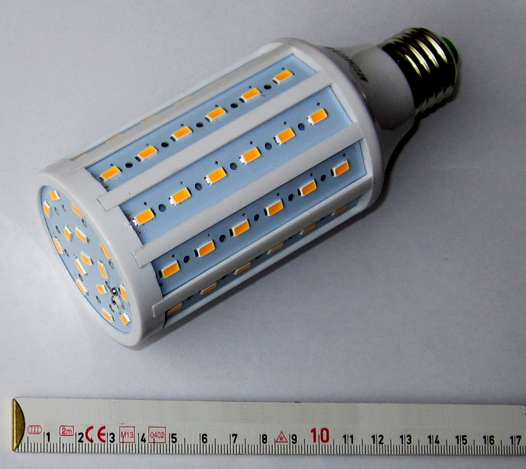 LED Lamp in Corn Lamp Design with SMD LEDs on Aluminium Carrier - this Lamp is not safe because grid connected solder points are not isolated.